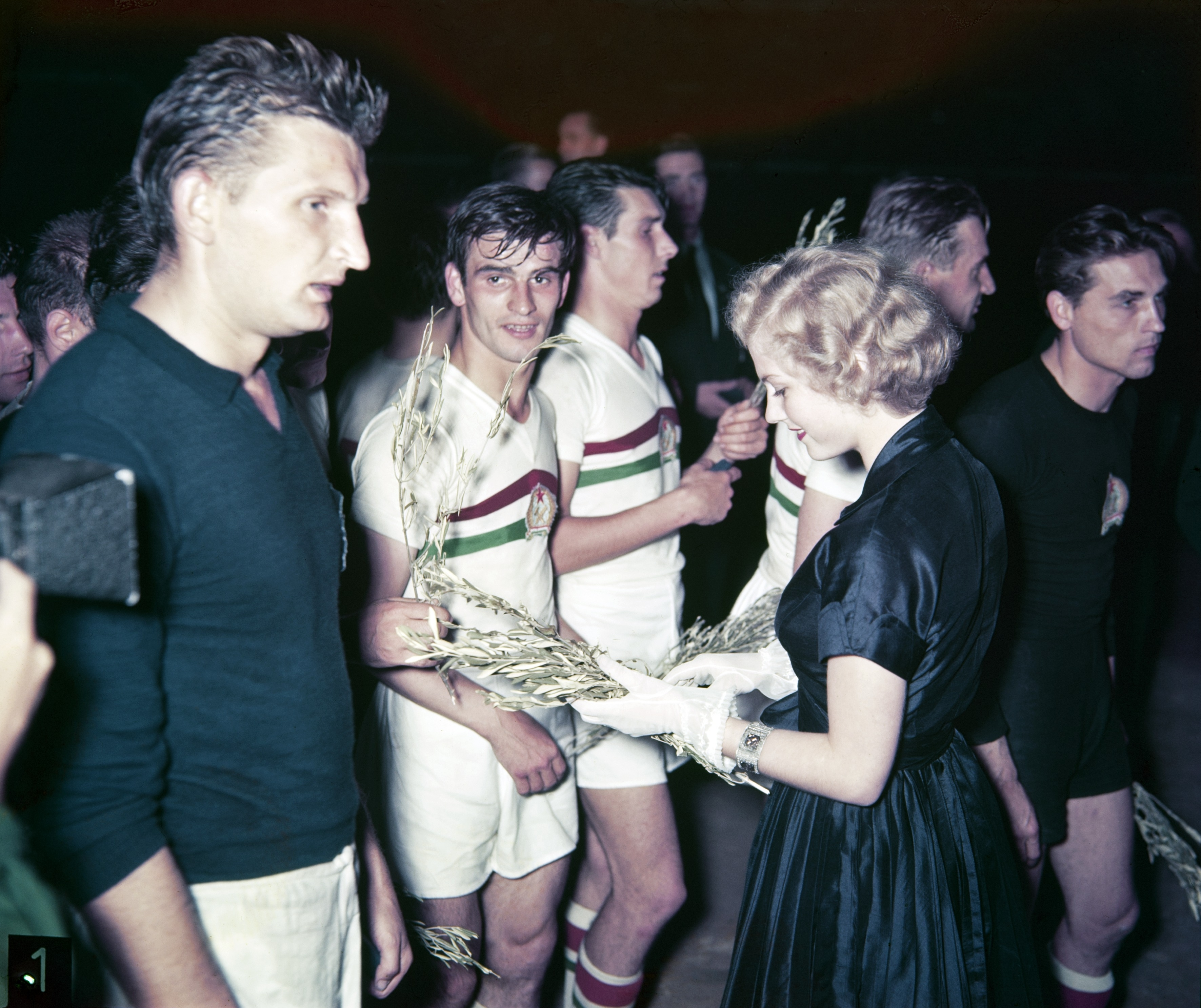 Miss Universe 1952 Armi Kuusela awarding the Hungary gold medal winning football team with olive tree branches at the 1952 Summer Olympics in Helsinki.